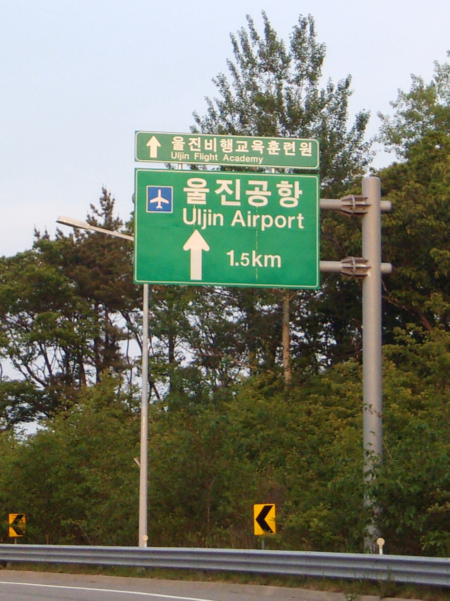 Uljin airport directional sign